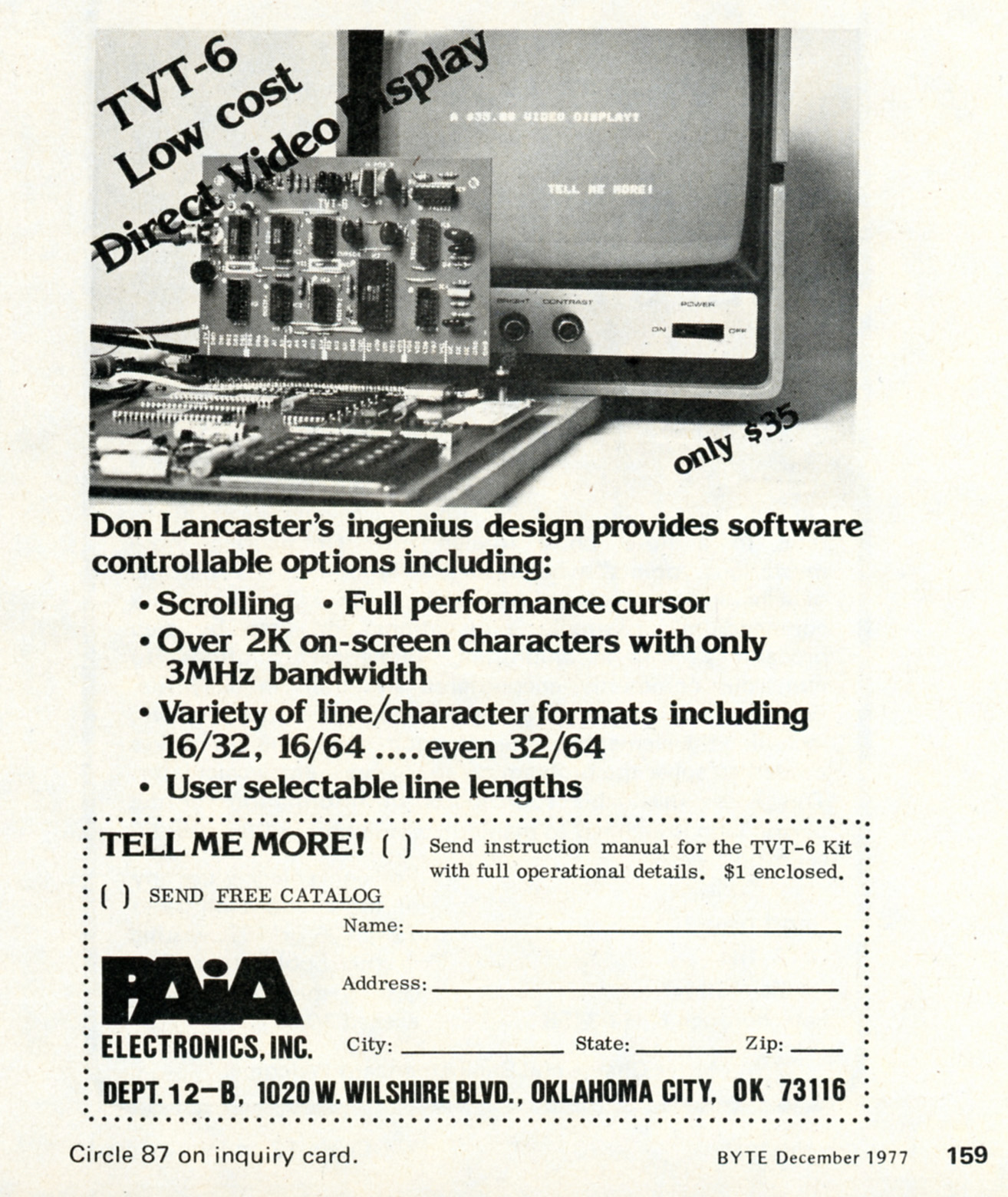 Advertisement for Don Lancaster's TVT-6 Video Display board for use with the KIM-1 6502 computer board.